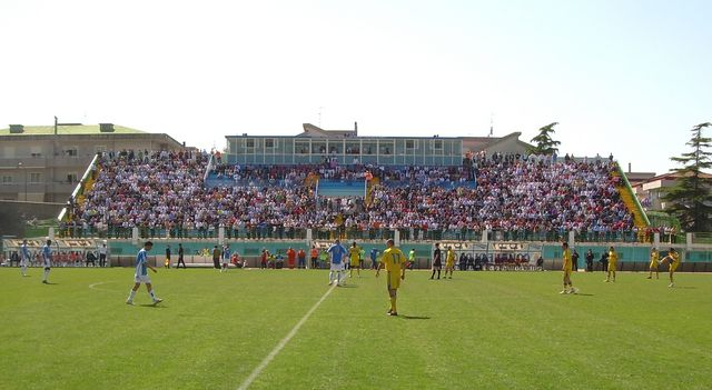 Stadio Marcello Torre in Pegani, Italy.